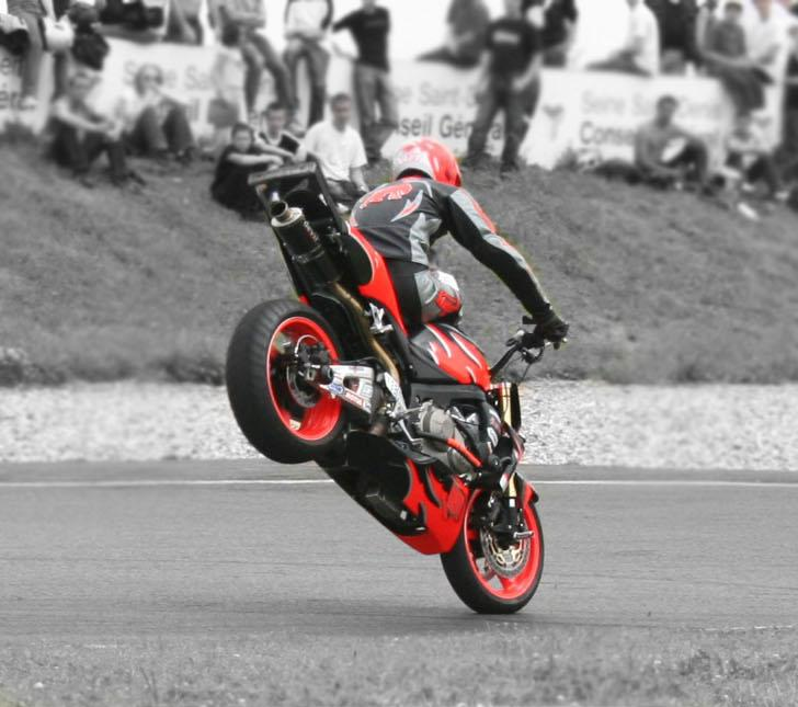 Stoppie (stunt)